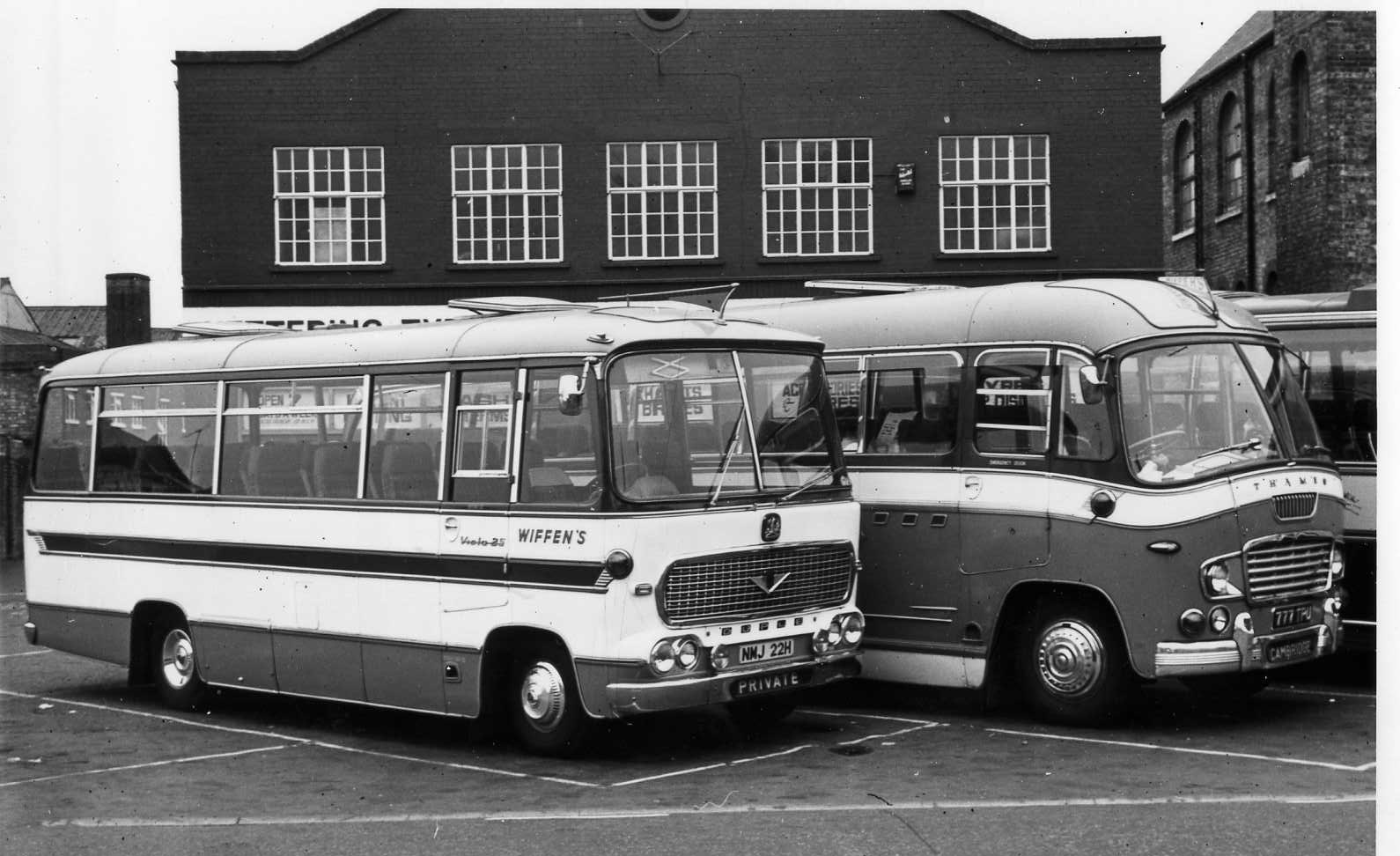 Bedford VAS NMJ22H and 777TPU a Ford Thames 570E seen parked in Newmarket Road, Cambridge, c 1974 . 777 was new to Wiffen, who favoured the registration numbers 77 or 777 for their coaches. Just poking out is the head of a Whippet on the Plaxton Panorama bodied coach next to the Thames. Where did NMJ come from? Baxter Moggerhanger?? A smart pair.